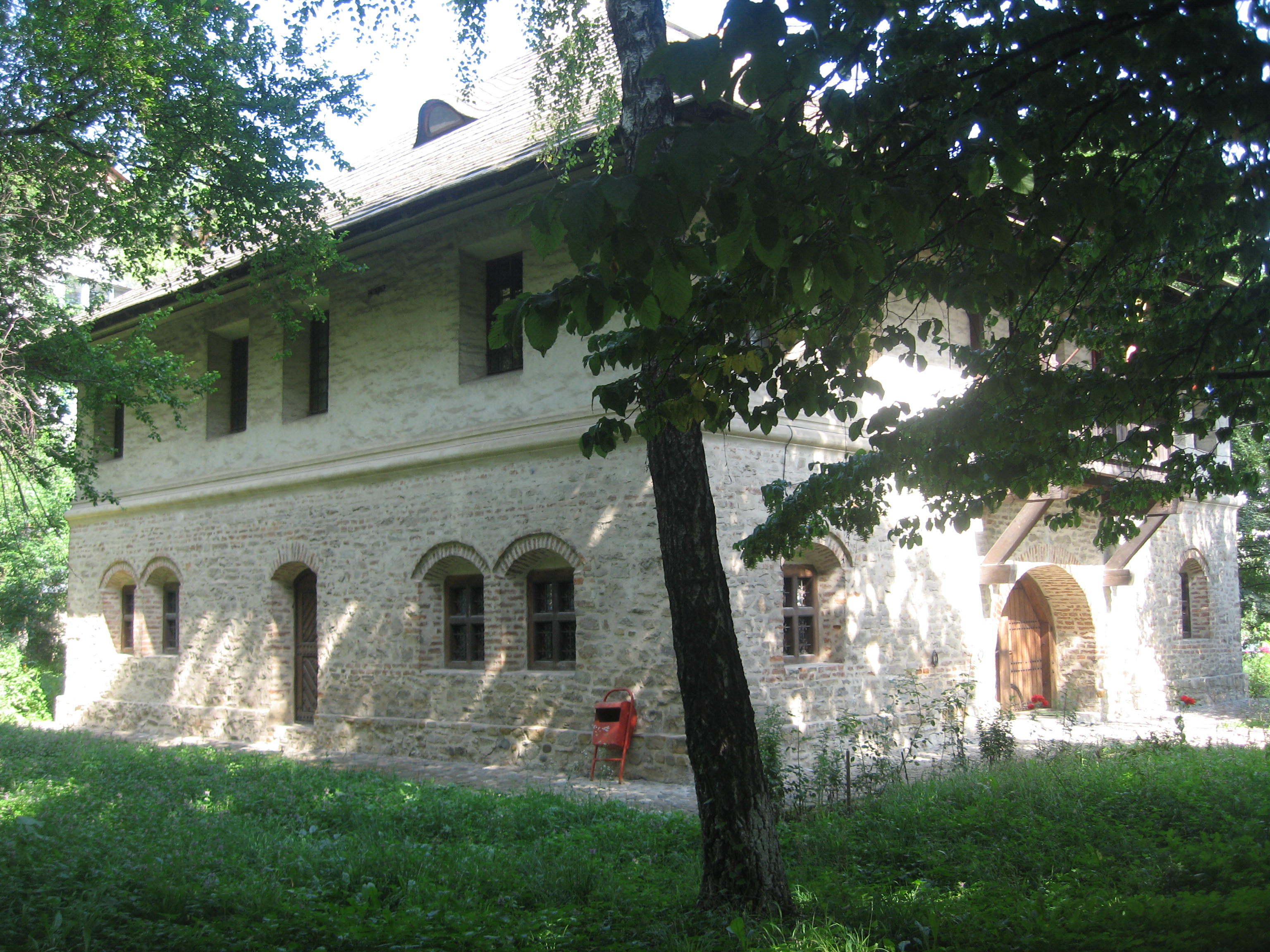 The Princely Inn in Suceava (The Ethnographic Museum).